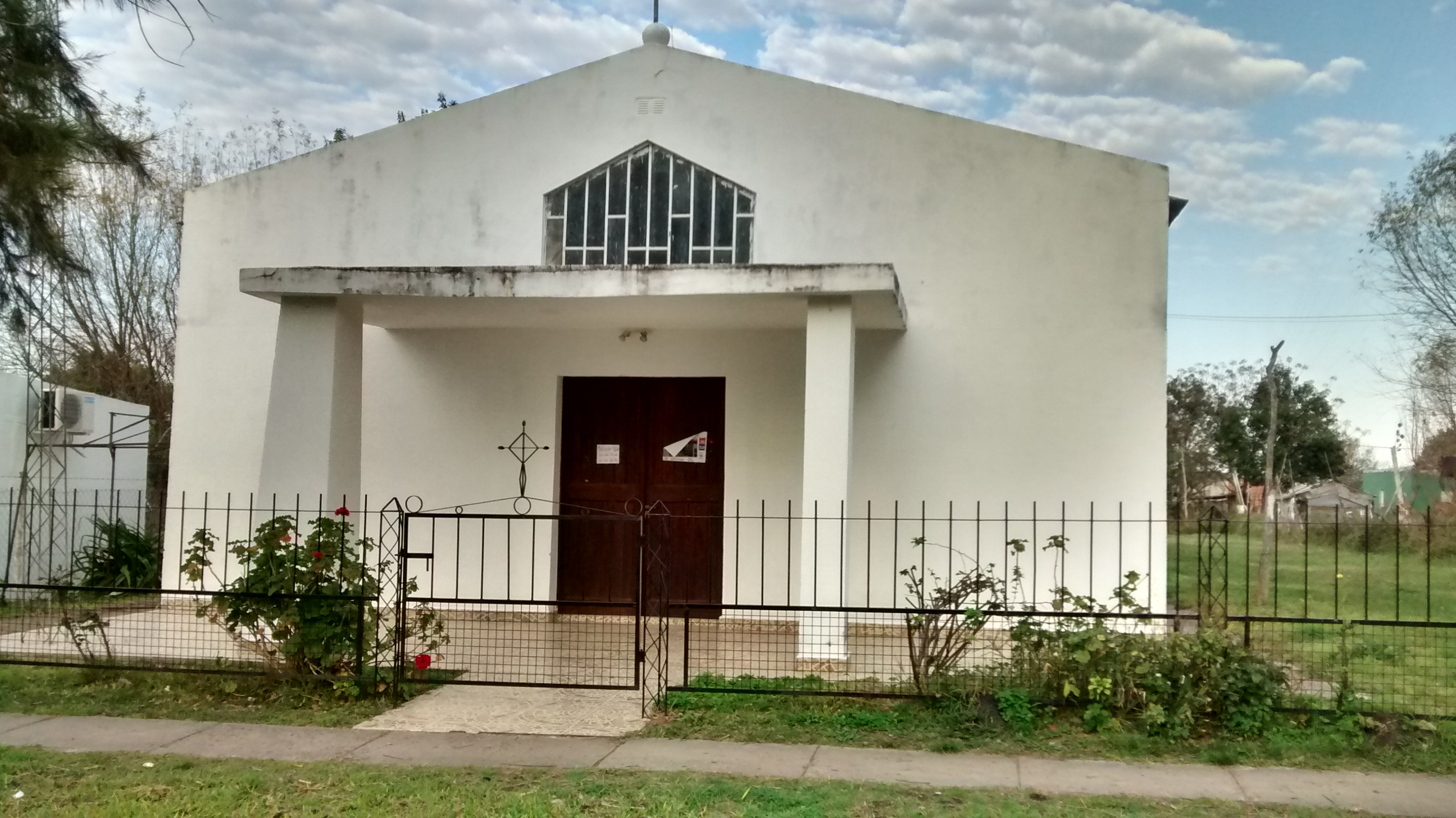 Colonia Avigdor (Entre Ríos): En esta antigua colonia judía está trabajando la Fundación Judaica para la recuperación de pequeñas industrias relacionadas con la agricultura y ganadería. La Comisión Nacional de Monumentos se suma a este proyecto con asesoramiento para la recuperación de los edificios históricos del pueblo. Además, se gestionó ante la Dirección Nacional de Arquitectura un crédito para la realización de obras de infraestructura que fue aprobado.